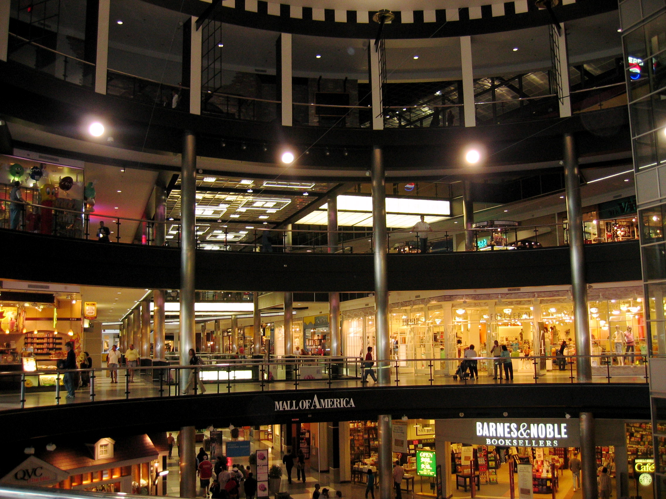 Inside Mall of America at Bloomington, Minnesota, United States.